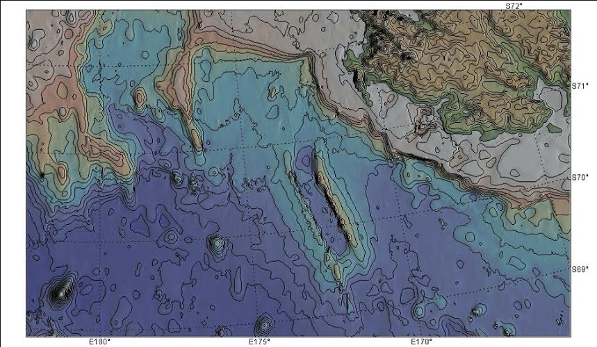 Arial View